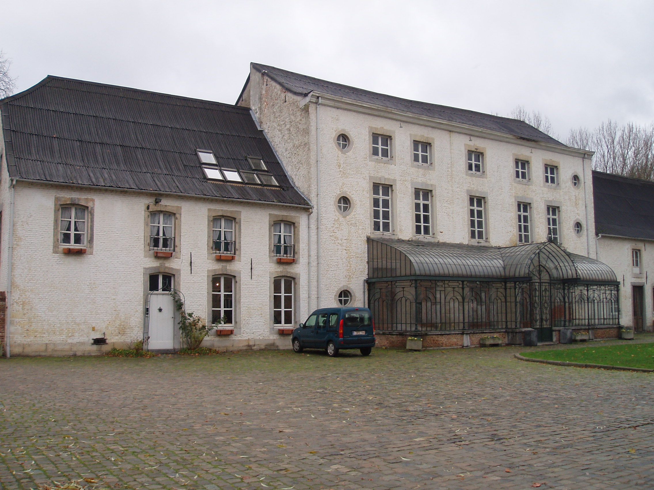 Sint-Truiden Speelhof